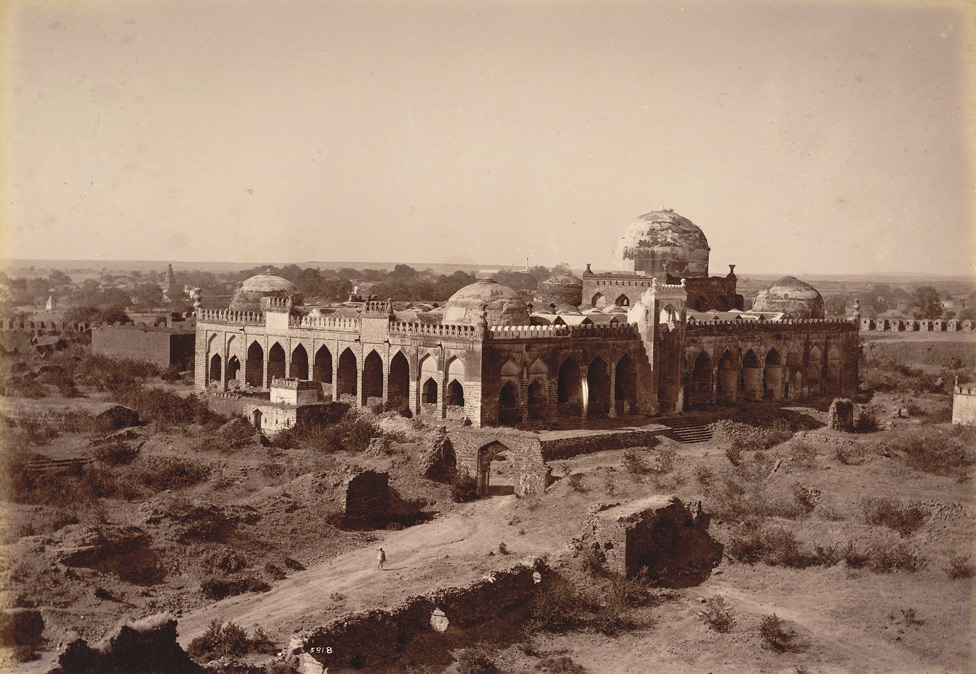 Photograph of the Jami Masjid in Gulbarga, Karnataka, from the Curzon Collection: 'Views of HH the Nizam's Dominions, Hyderabad, Deccan, 1892', taken by Deen Dayal in the 1880s. In the early 14th century the Deccan was occupied by Muhammad Tughluq (r.1325-51) who brought the entire region under the rule of the Delhi Sultanate. Later in the century Gulbarga became the capital of the Bahmani kingdom (1347-1527), a newly founded independent state, until 1424 when the capital was transferred to Bidar. The Bahmanis ruled over most of the Deccan until the late 15th and early16th centuries when the kingdom was divided into five independent states. The Jami Masjid was erected in the fort at Gulbarga by Ala-ud-din Hasan Bahmani Shah (r.1347-1358), founder of the Bahmani dynasty. An inscription records that it was completed in 1367 but aspects of the ornament suggest it was completed in the early 15th century during the reign of Firuz Shah (r.1397-1422). Its plan resembles the Great Mosque at Cordoba. The mosque is unusual as the central area, which would normally have been an open courtyard, is covered over with numerous small domes. Three of the outer walls are not solid but made up of open arcades. The main sanctuary is crowned with a high dome above a square clerestory.